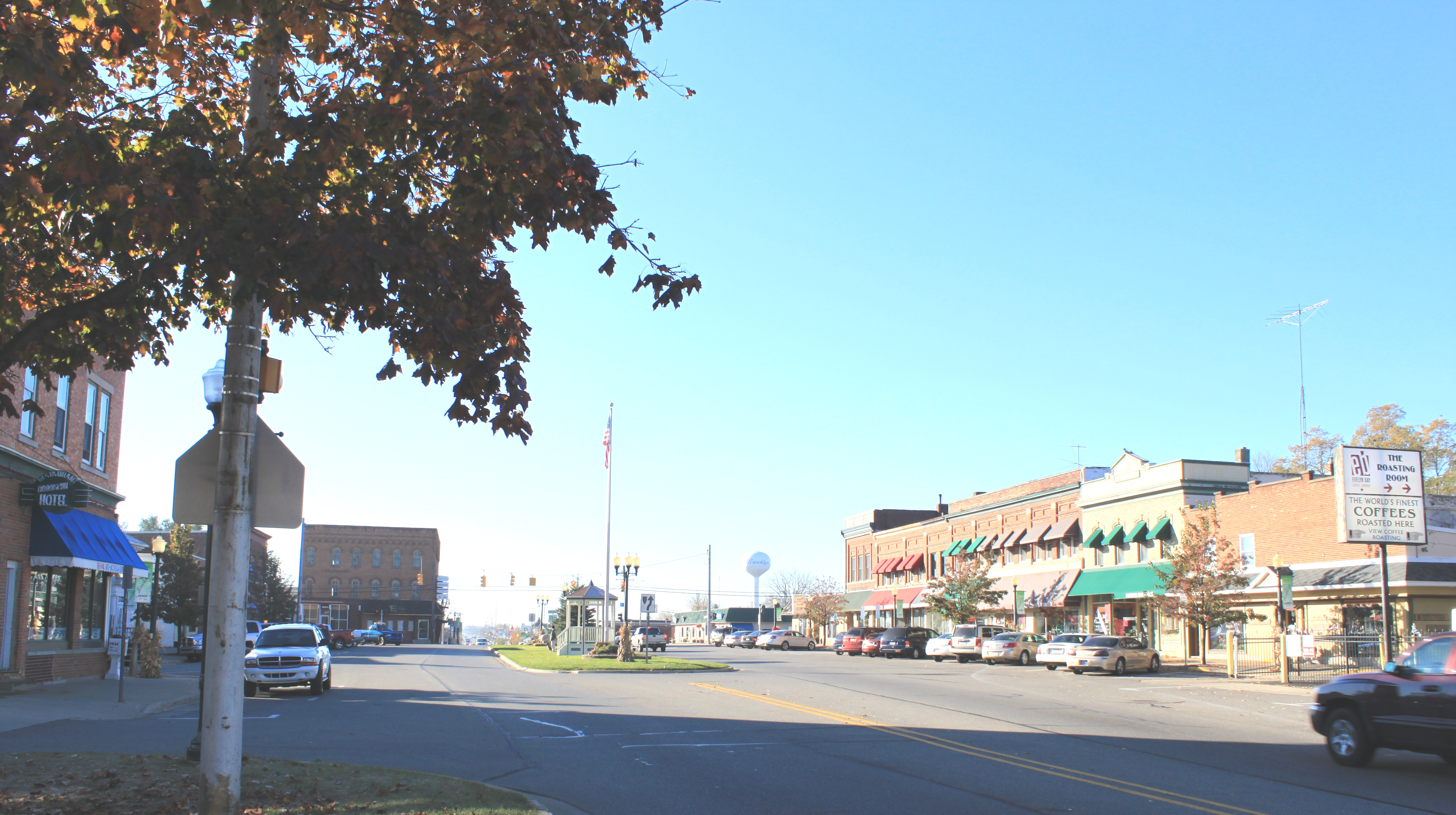 Brooklyn Michigan, downtown area, Main Street, facing south